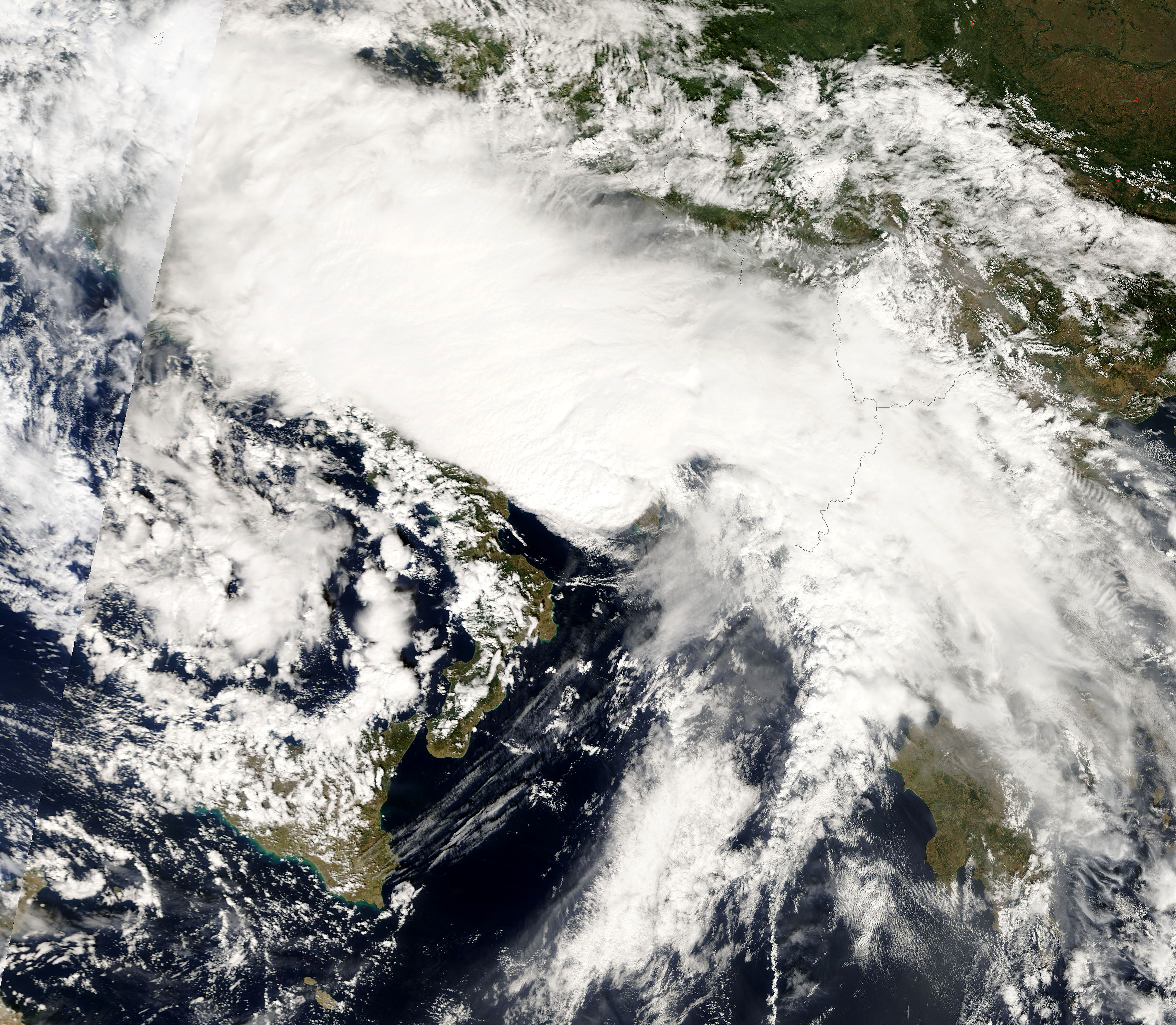 A Possible Mediterranean tropical cyclone on September 26, 2006.